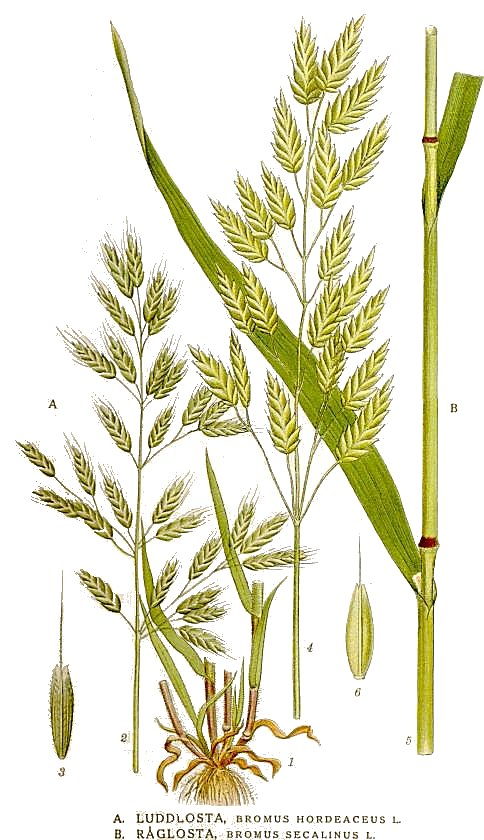 A. Bromus hordeaceus L. B. Bromus secalinus L. s. str. Original Description "Luddlosta", Bromus hordeaceus L., "Råglosta", Bromus secalinus L.